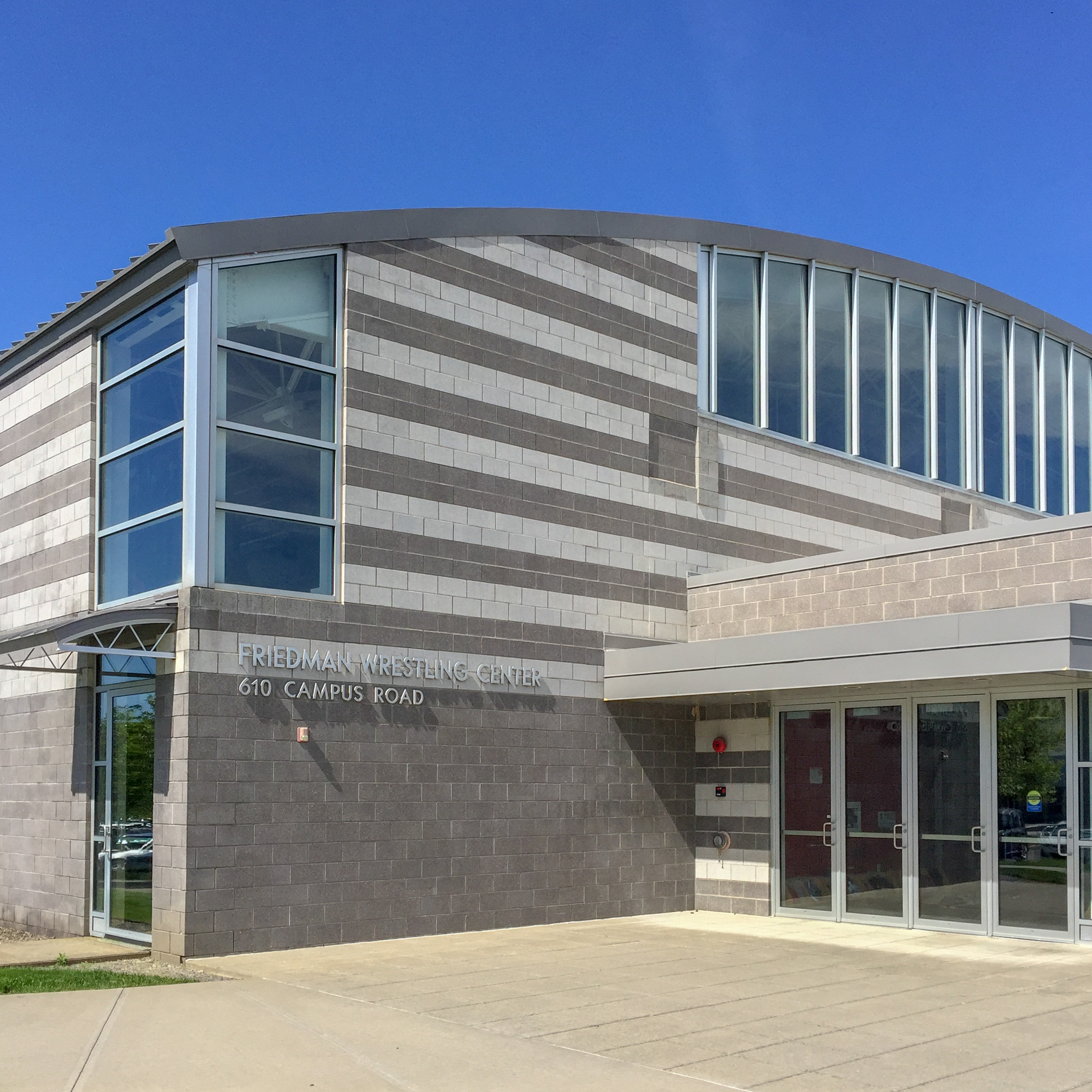 Friedman Wrestling Center, Cornell University, Ithaca, NY. Cannon Design, Boston, Architects. Opened 2003.